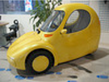 Sparrow Motors Inc., Alpha Sparrow was the first of the Sparrows built.